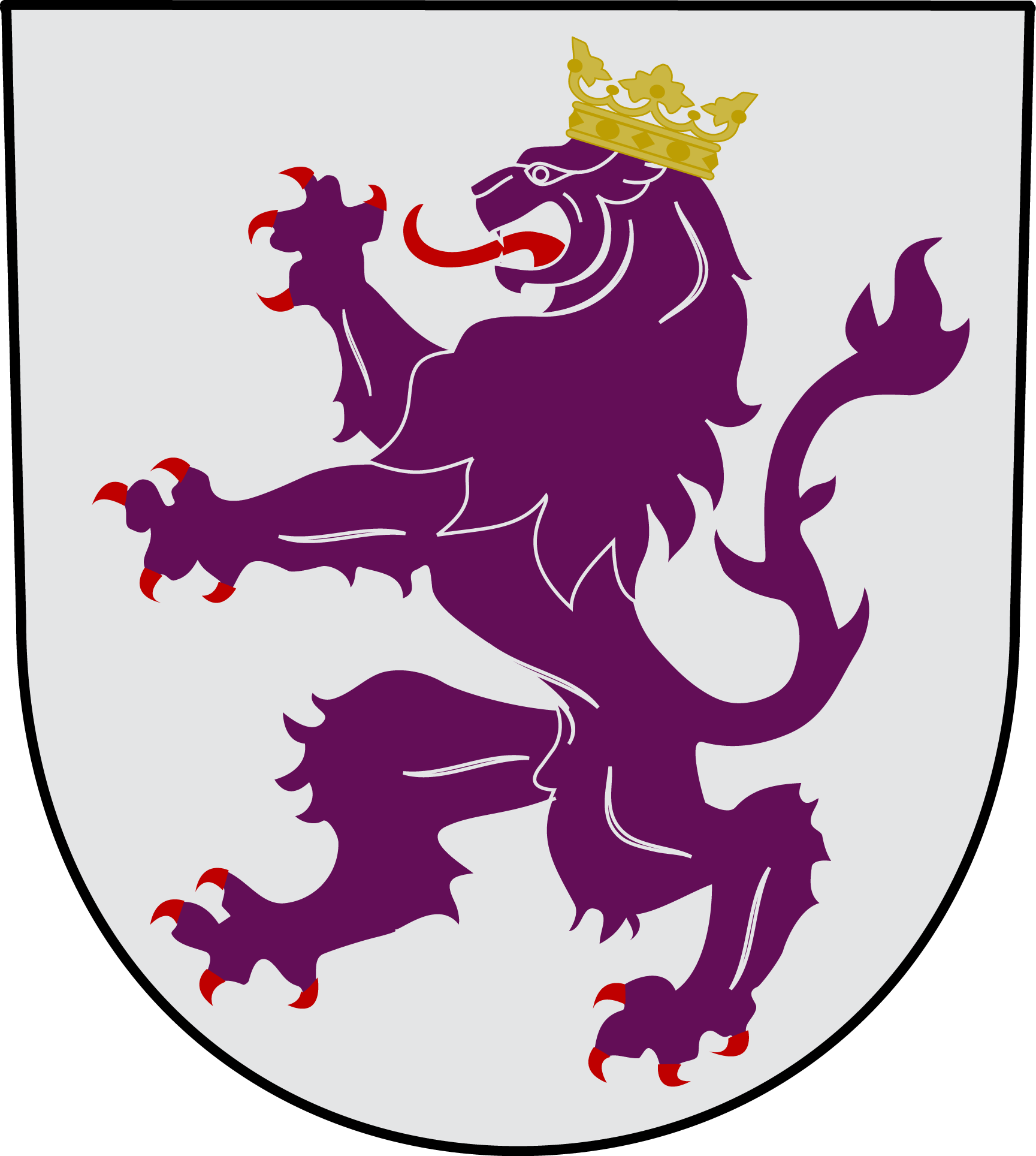 Coat of arms of the Kingdom of Leon